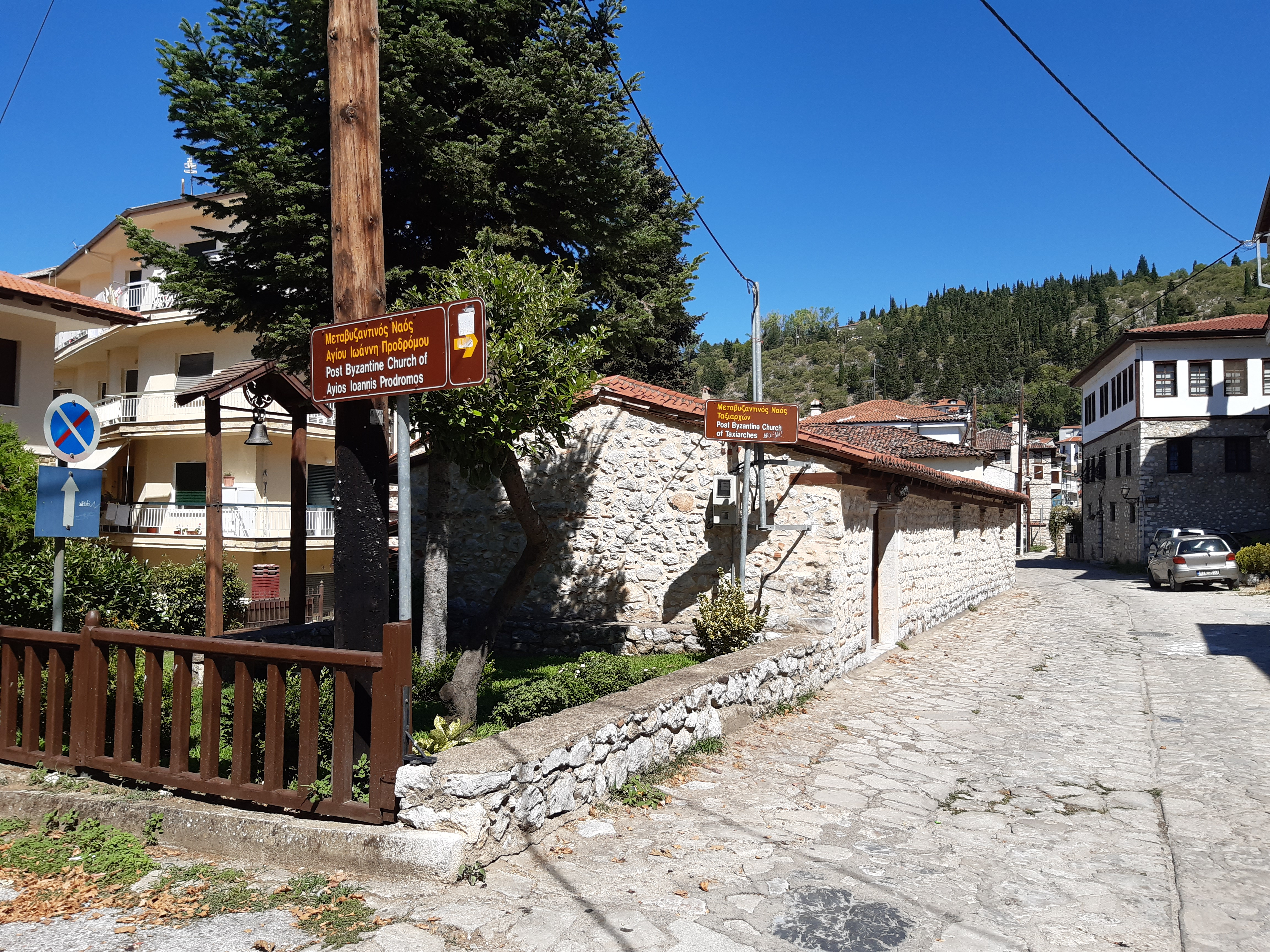 Archangels Church in Apozari in August 2020 0